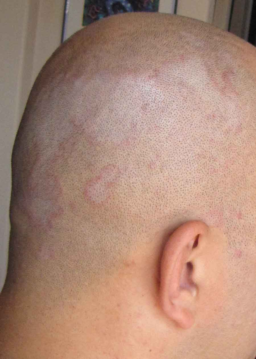 Picture of Seborrhoeic Dermatitis.